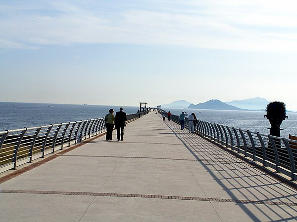 Private photo of the Bagnoli pier, taken and uploaded by user User:JeffmattJeffmatt 07:22, 13 December 2006 (UTC). Private photo of the Bagnoli pier, taken and uploaded by user Jeffmatt 07:22, 13 December 2006 (UTC).